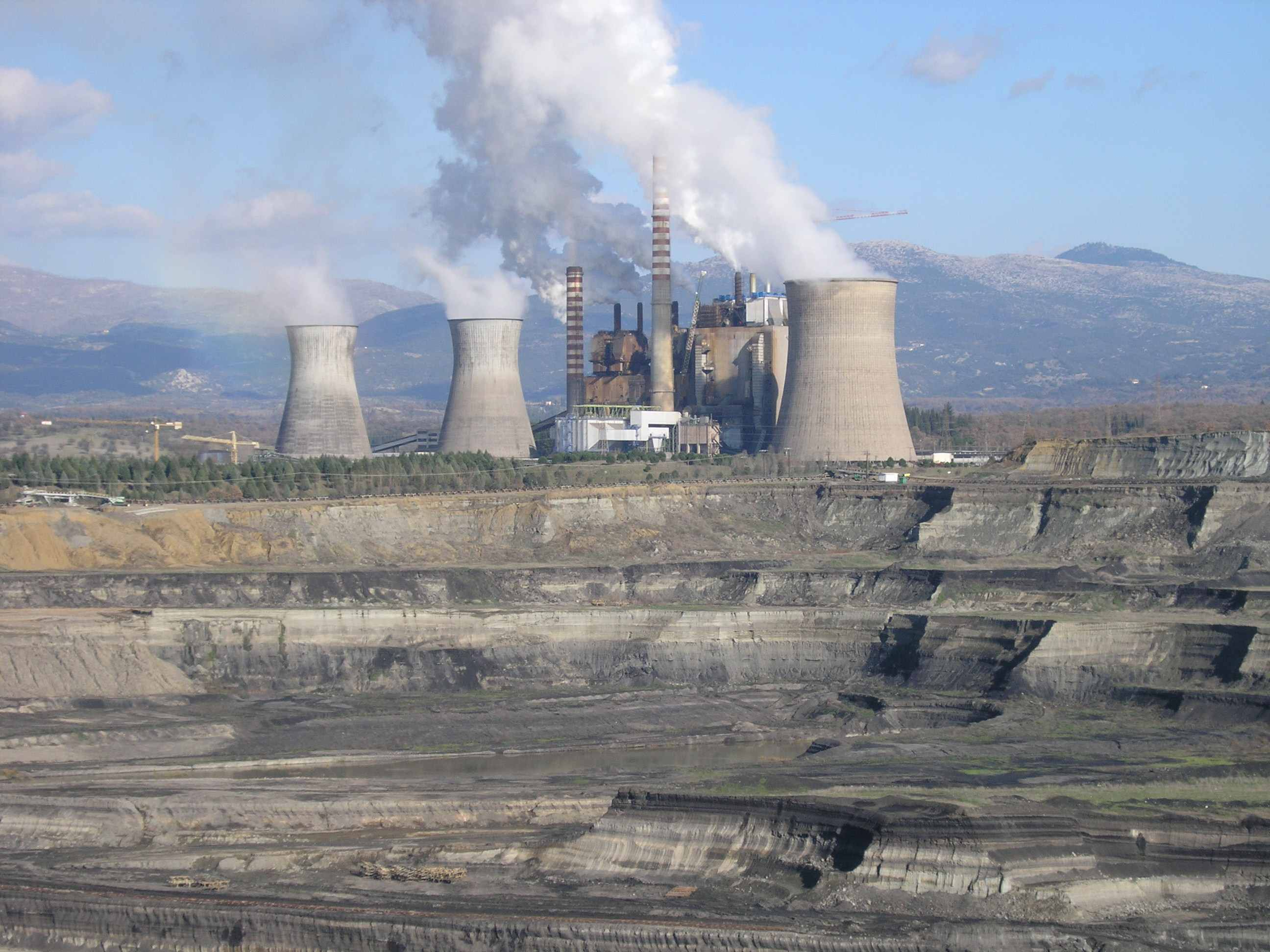 Lignite Mine in Megalopolis, showthern Greece